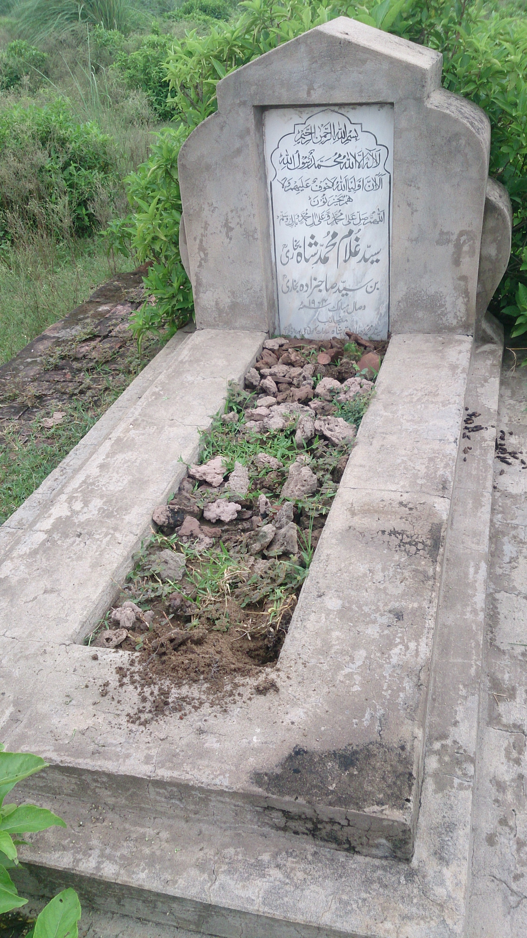 سید غلام محمد شاہ بخاری